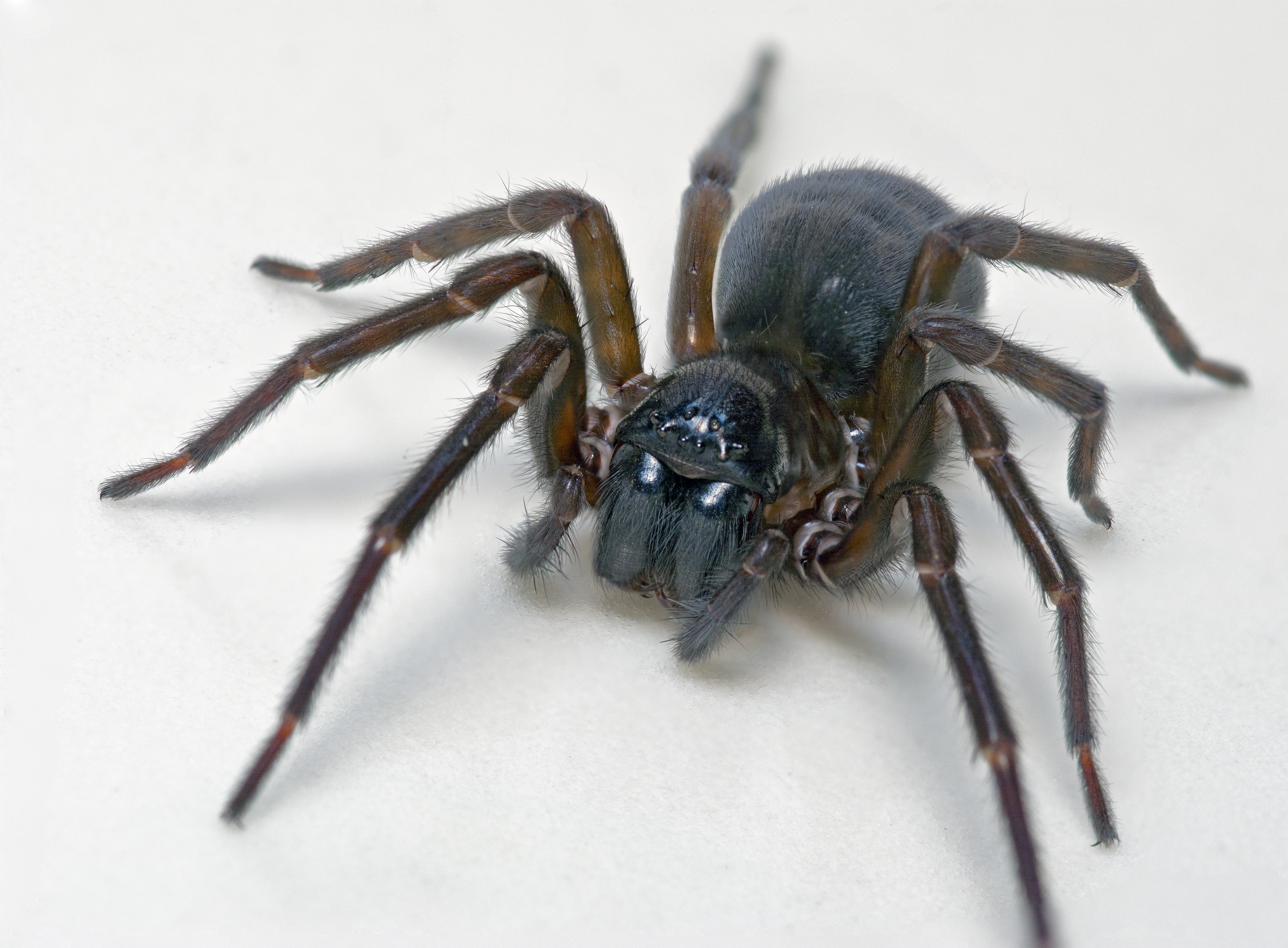 Black Lace Weaver (Amaurobius ferox), a common garden spiders. Female, about 15mm long.